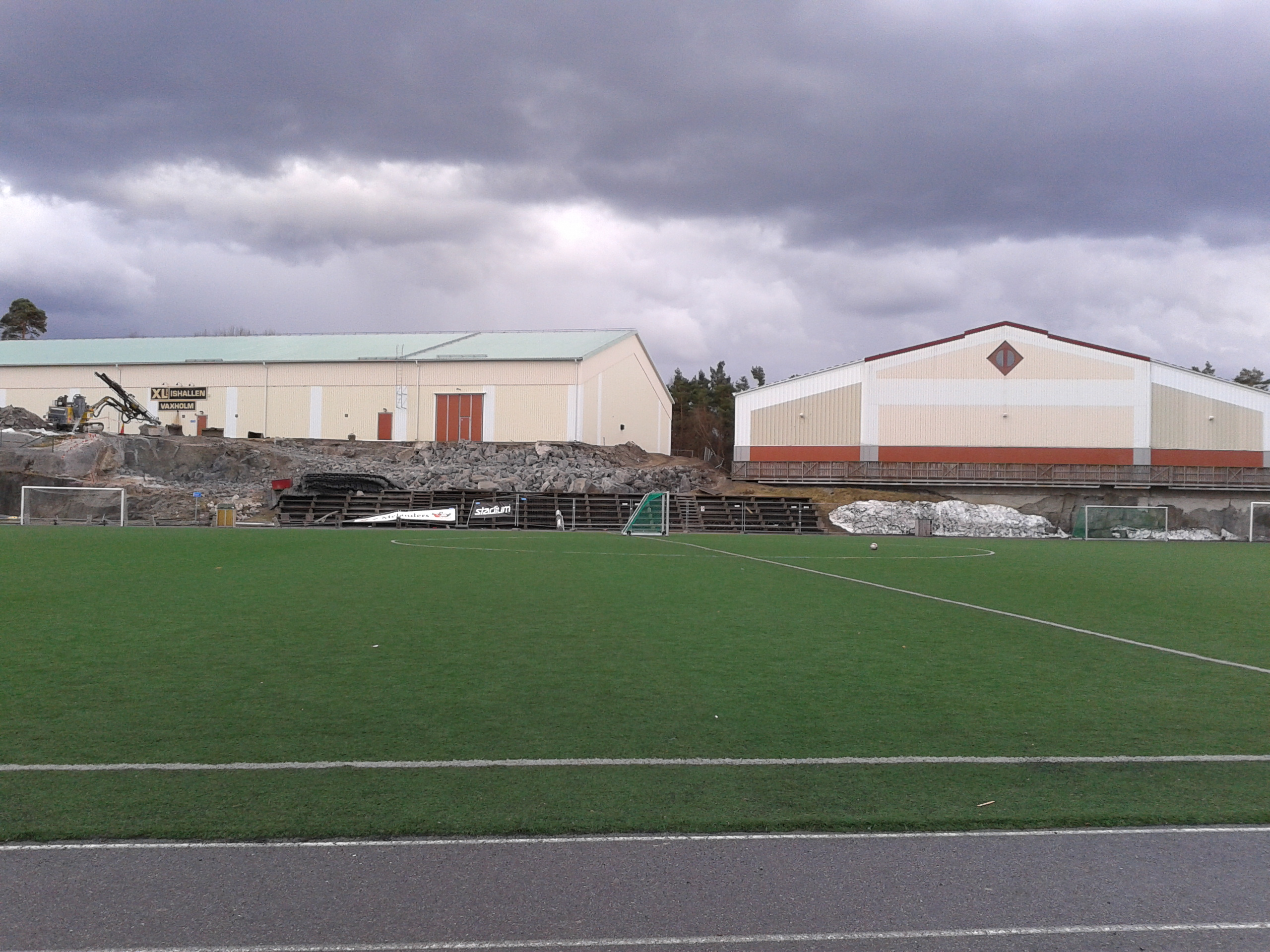 A picture of Vaxö IP 2013